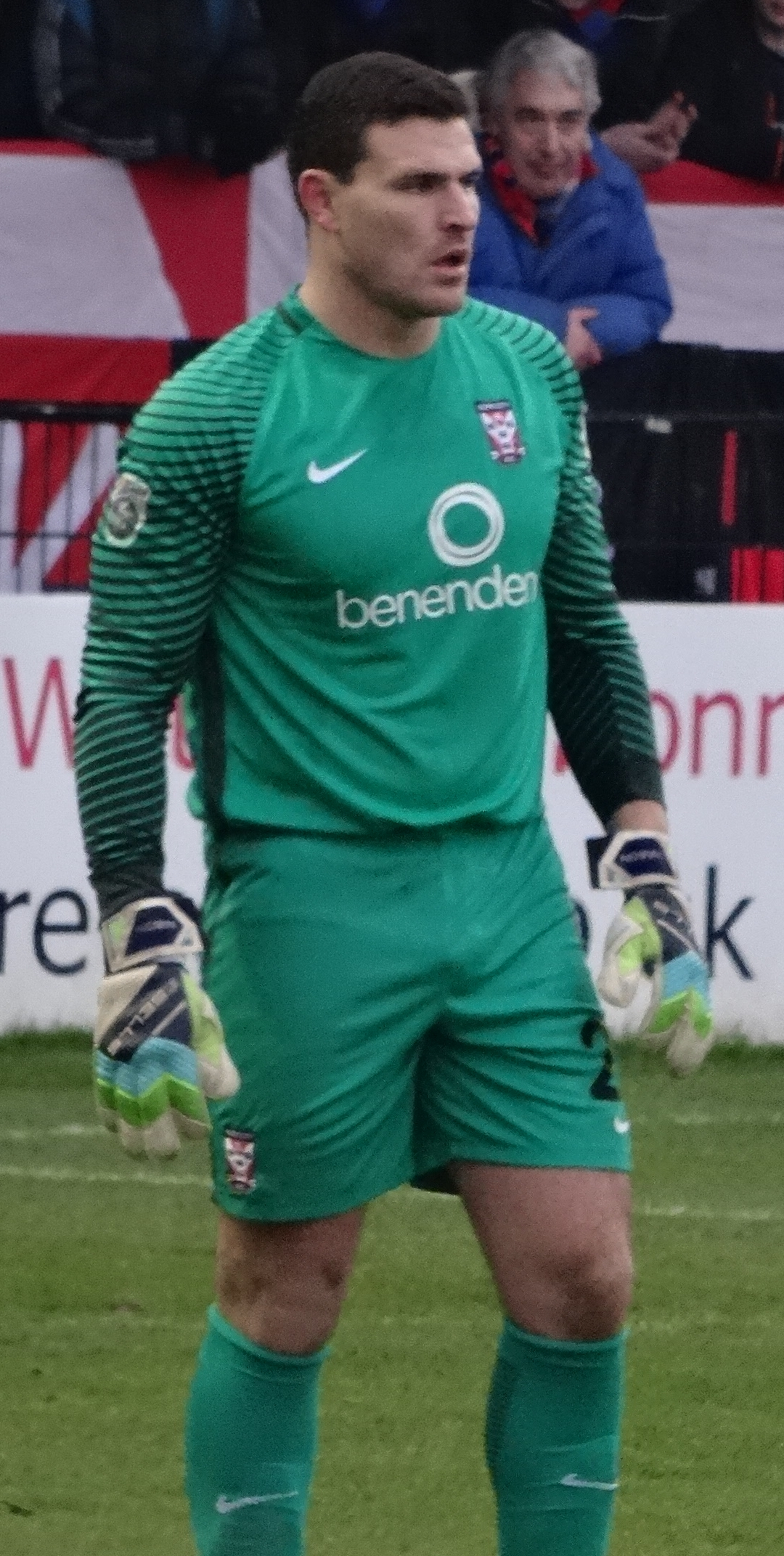 Kyle Letheren playing for York City against Maidstone United at Bootham Crescent, York on 11 February 2017